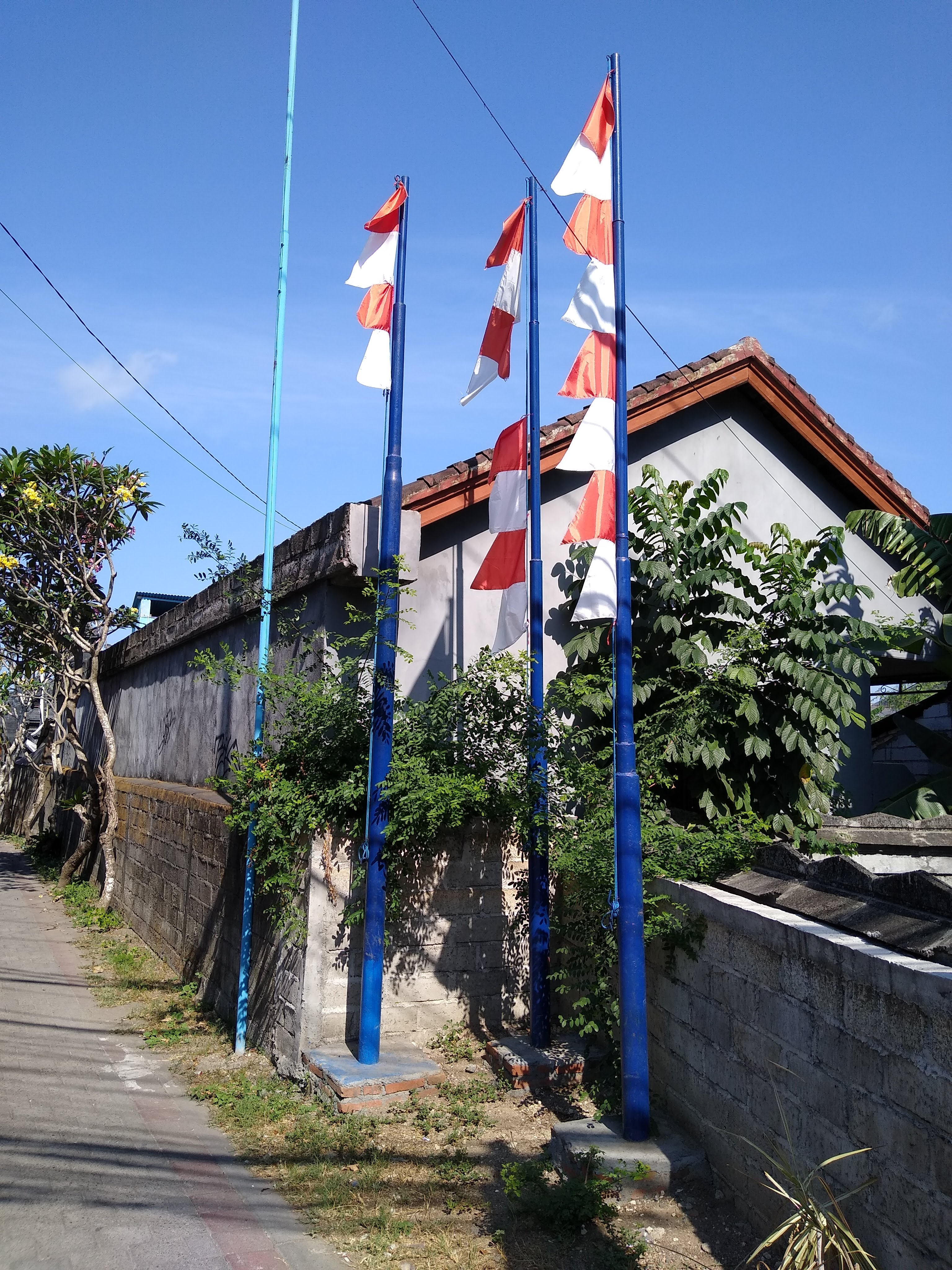 Three umbul-umbul in Bali.